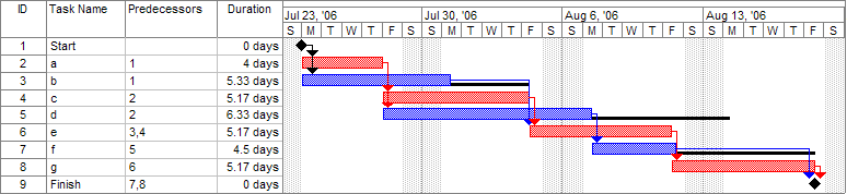 Pert example gantt chart